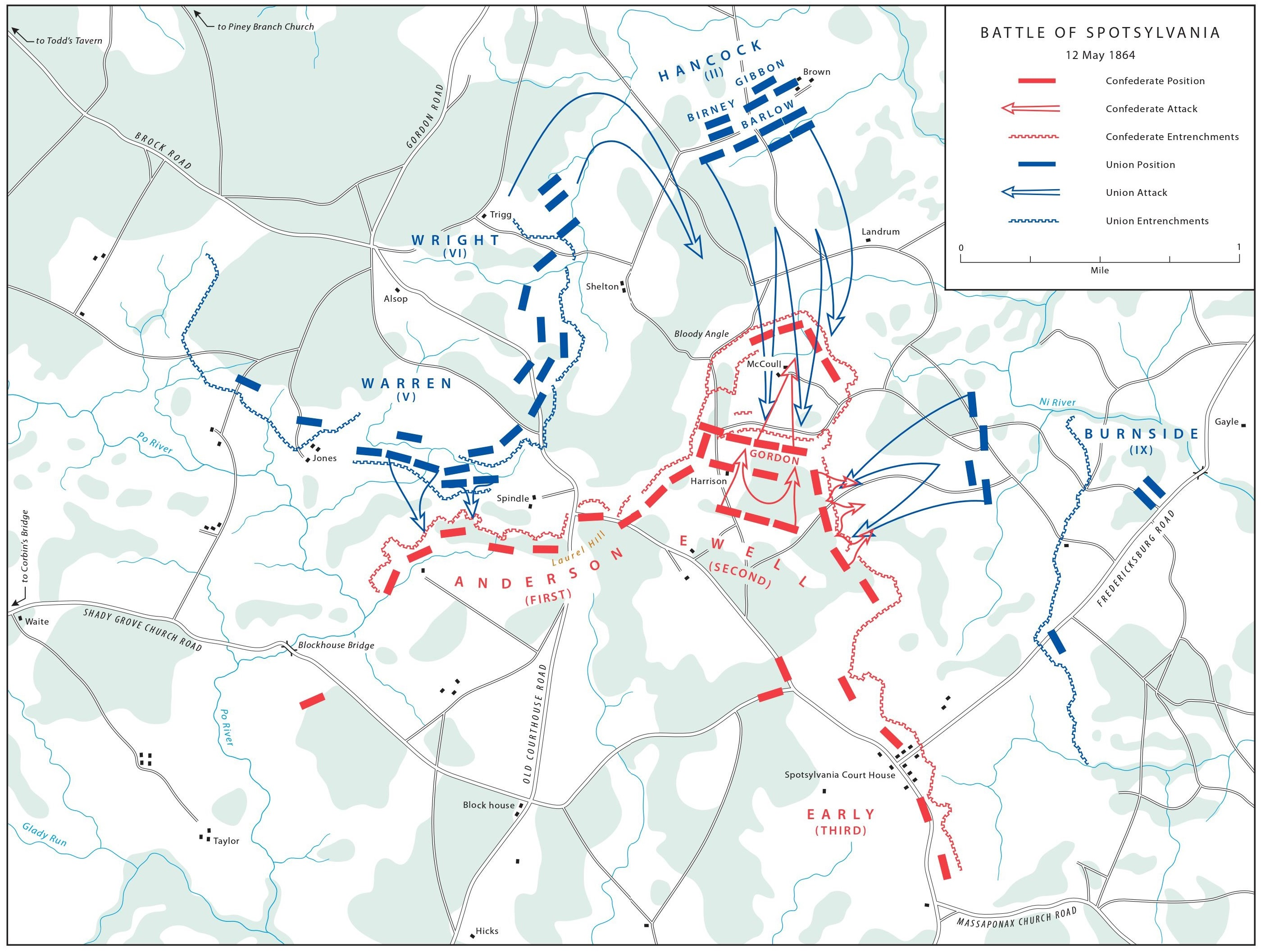 Battle of Spotsylvania Court House (May 8-21, 1864). Situation May 12.